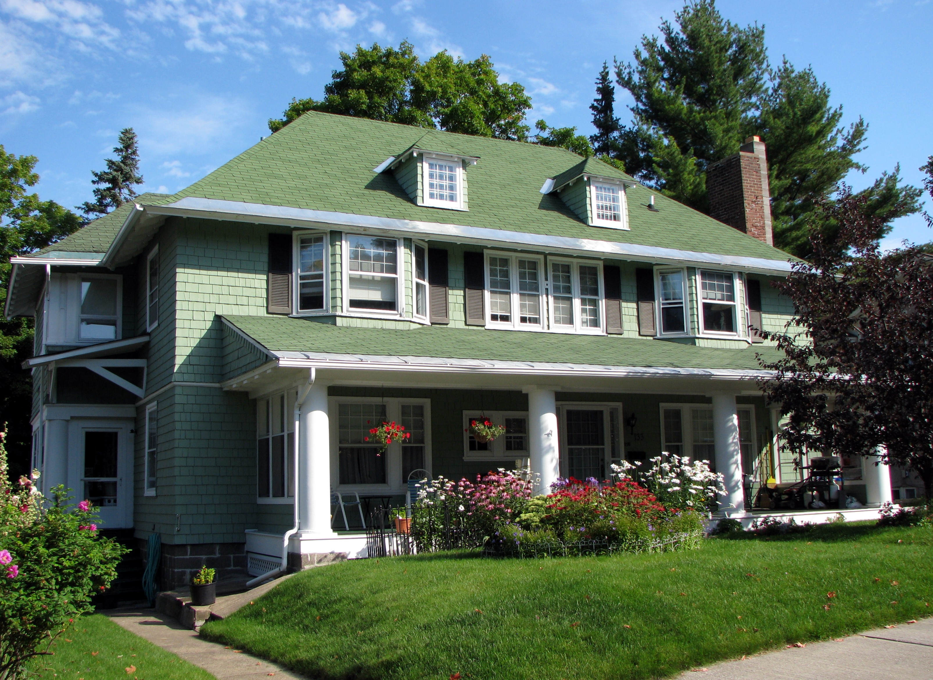 116 Main St. Saranac Lake, NY, USA. Part of the Church St. Historic District, NRHP.